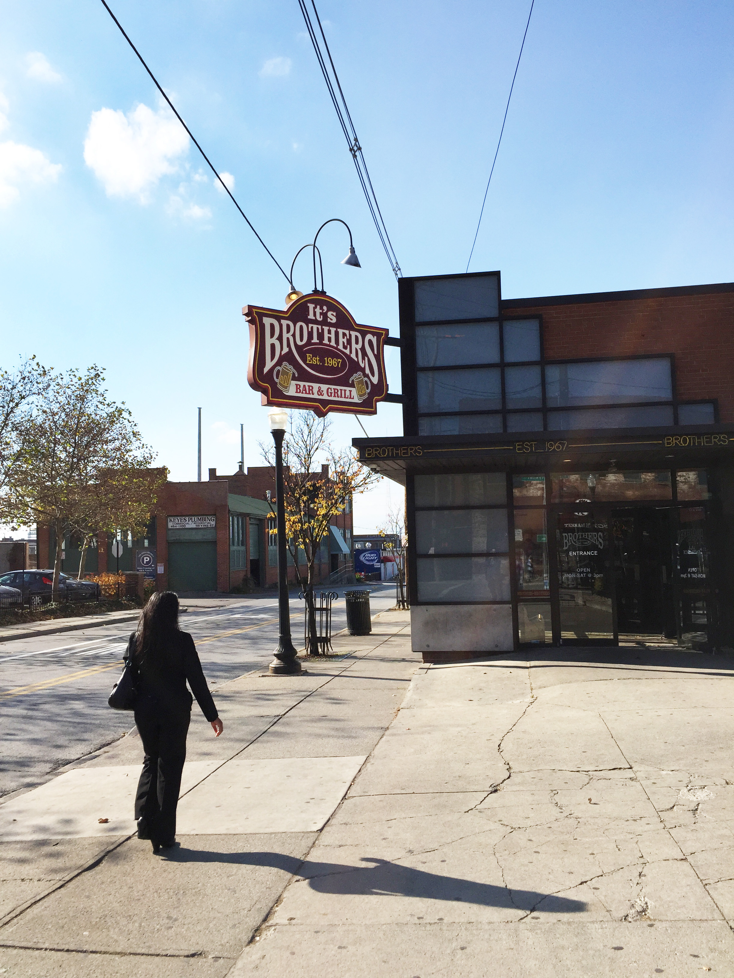 Brother Bar Columbus